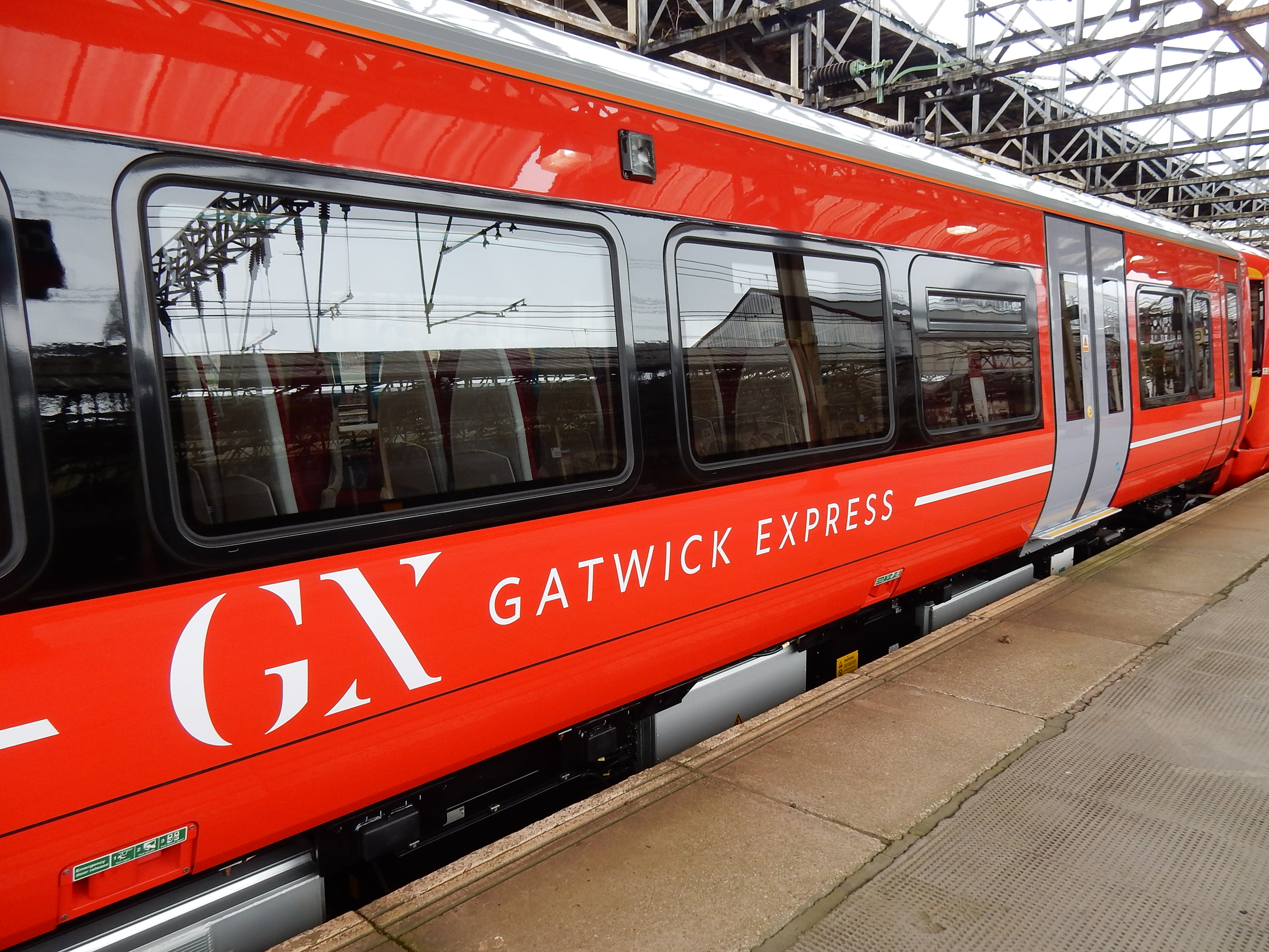 Class 387/2 unit 387204 at Crewe platform 7 in Gatwick Express livery